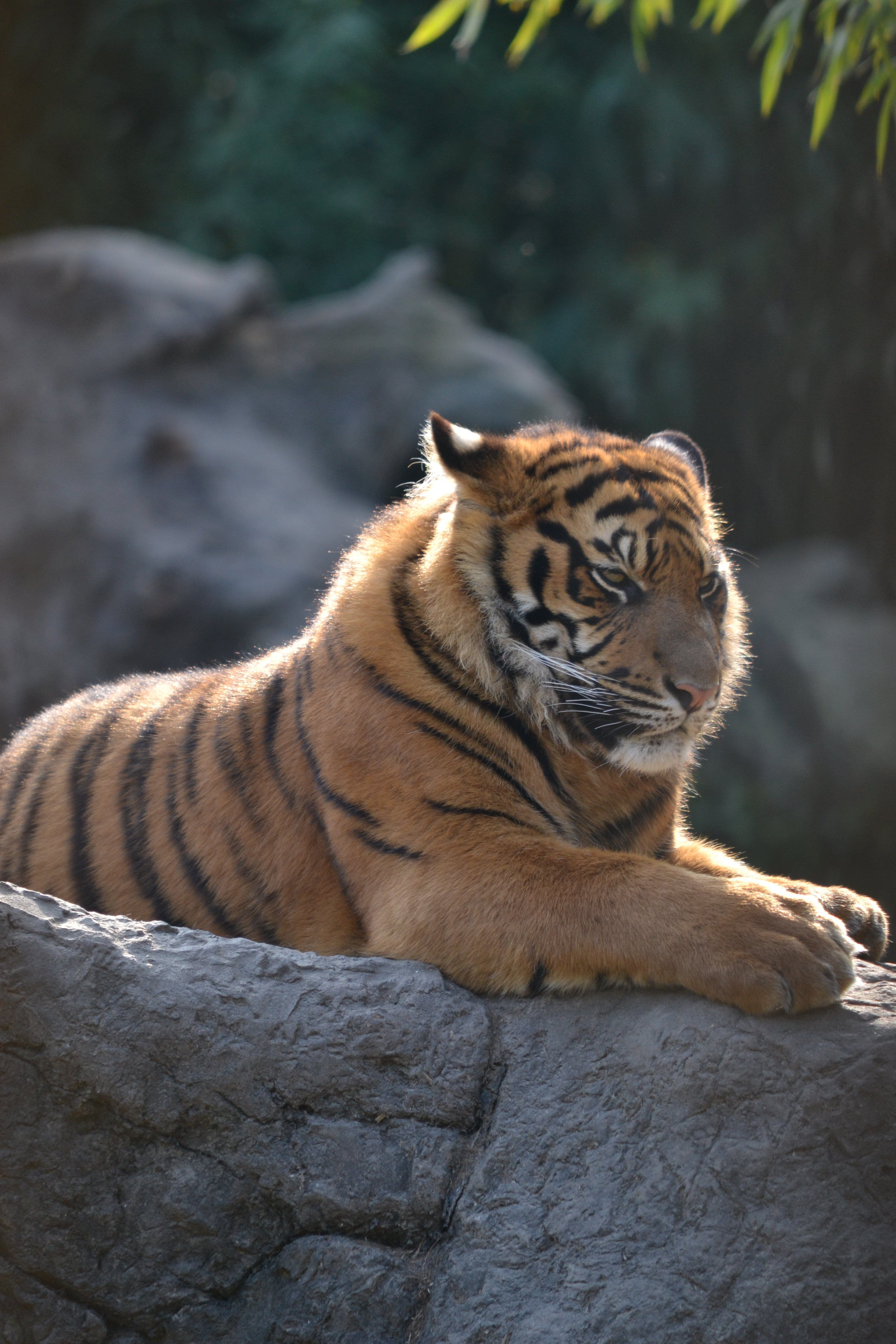 Sumatran tiger (Panthera tigris sumatrae) is a subspecies of tiger found on the Indonesian island of Sumatra (Rotterdam Zoo).